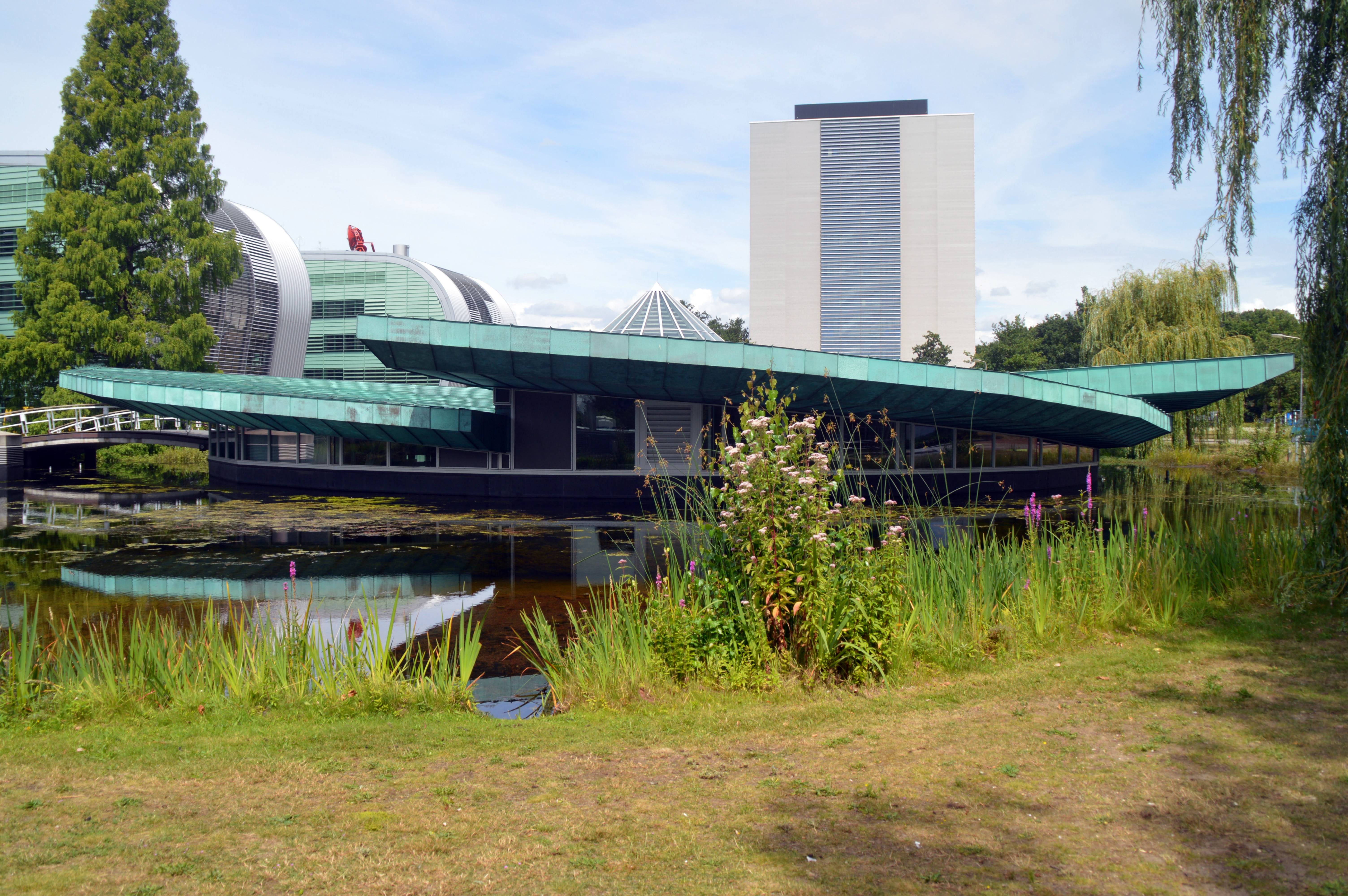 The Goudsmit Pavilion for Nuclear Magnetic Resonance research NMR pavilion with the Huygens building on the left and behind the Mercator building Radboud University Nijmegen